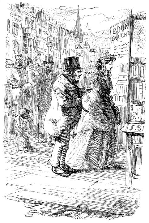 Mr Boffin ,with Bella, acquiring stories of misers' lives.